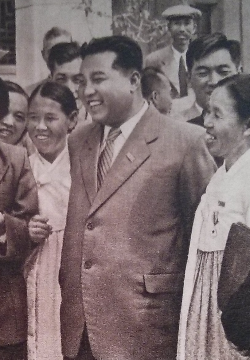 Kim Il-sung in 1946